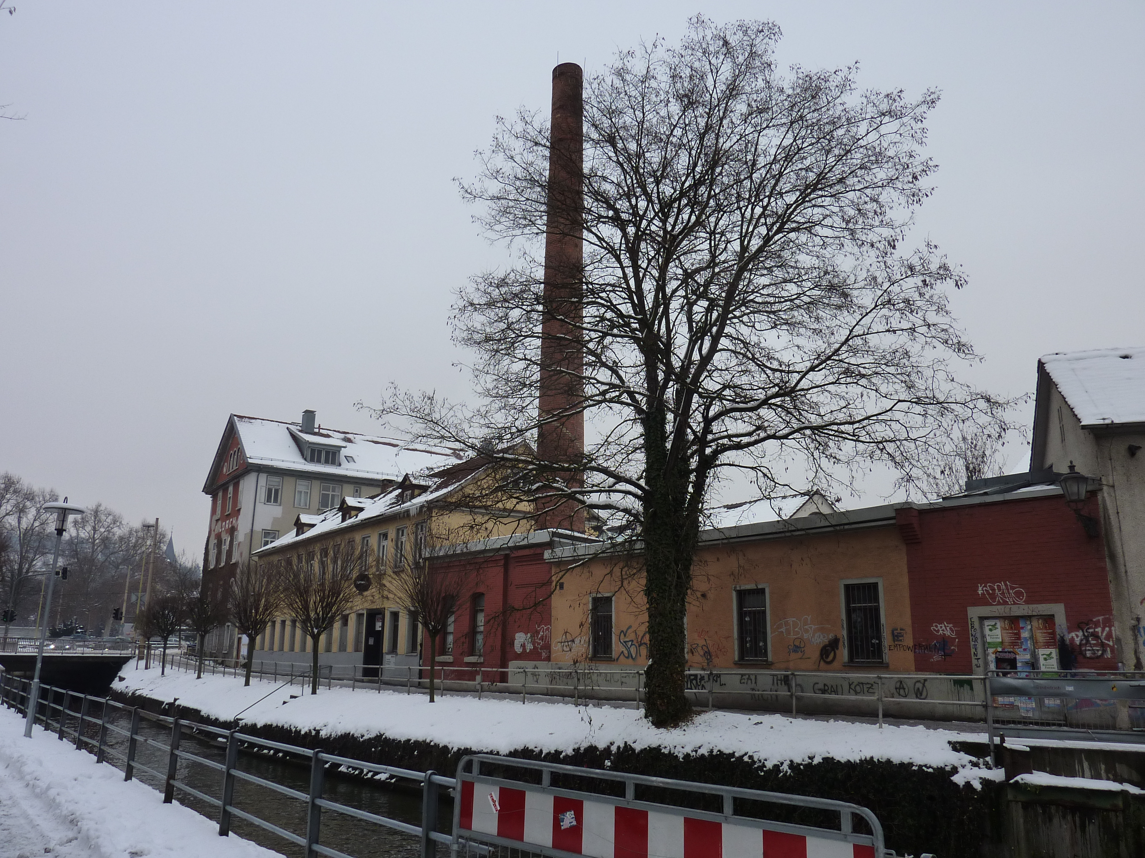 Lorch-Areal (Maille), Esslingen